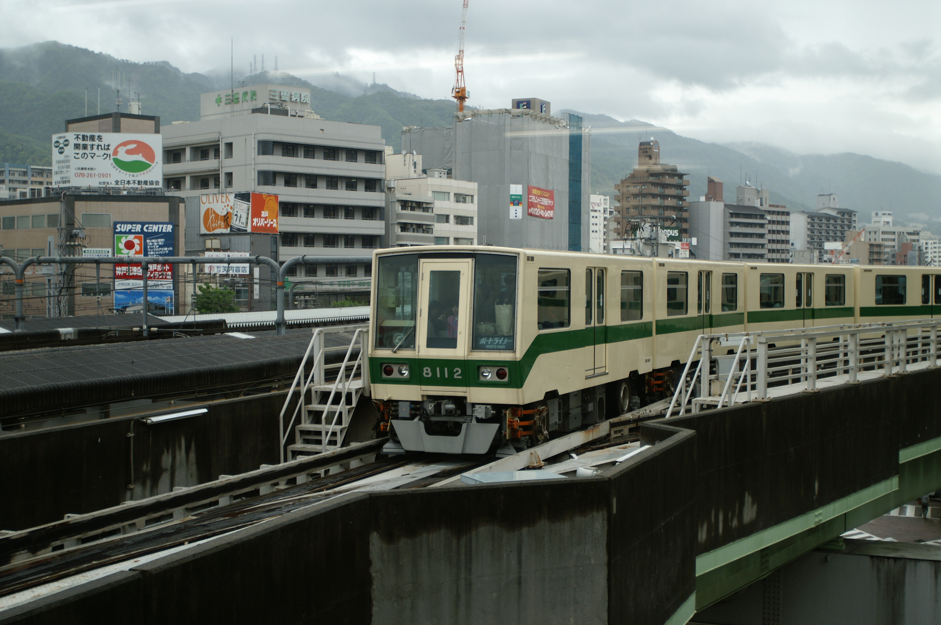 Kobe New Transit Port Liner Sannomiya Station